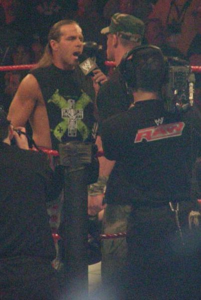 Shawn Michaels confronting John Cena post-WrestleMania